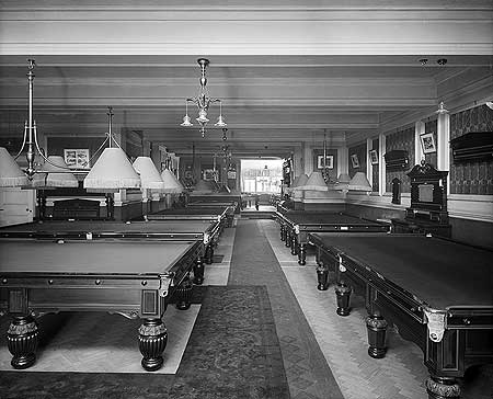 View at show room at Thurston's Hall (later Leicester Square Hall, demolished 1956)